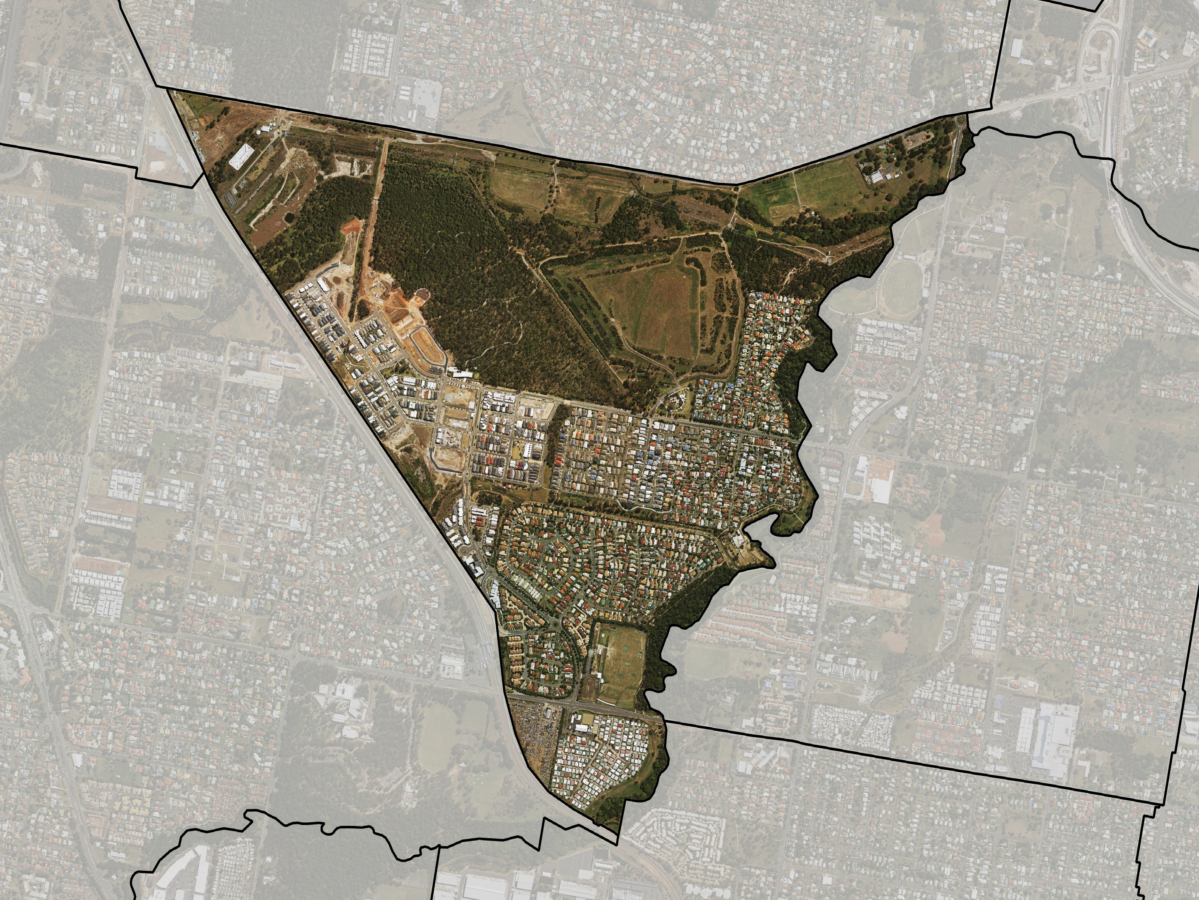 Satellite imagery of Fitzgibbon,_Queensland with suburb boundary overlay.